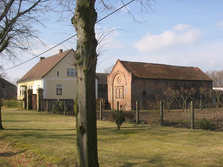 Croft in Jütchendorf. The village Jütchendorf is a part of the town Ludwigsfelde in the district Teltow-Fläming, state Brandenburg, Germany. The village is situated in the Nature park Nuthe-Nieplitz.